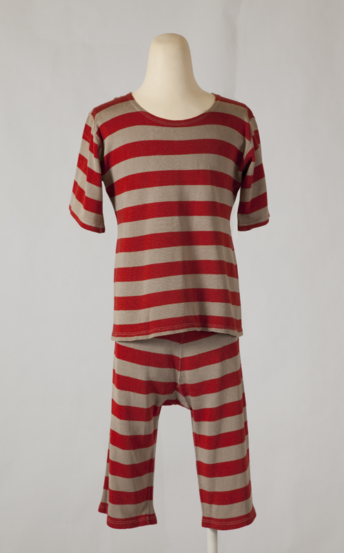 Man's bathing costume, 1910s. Red and grey striped jersey.